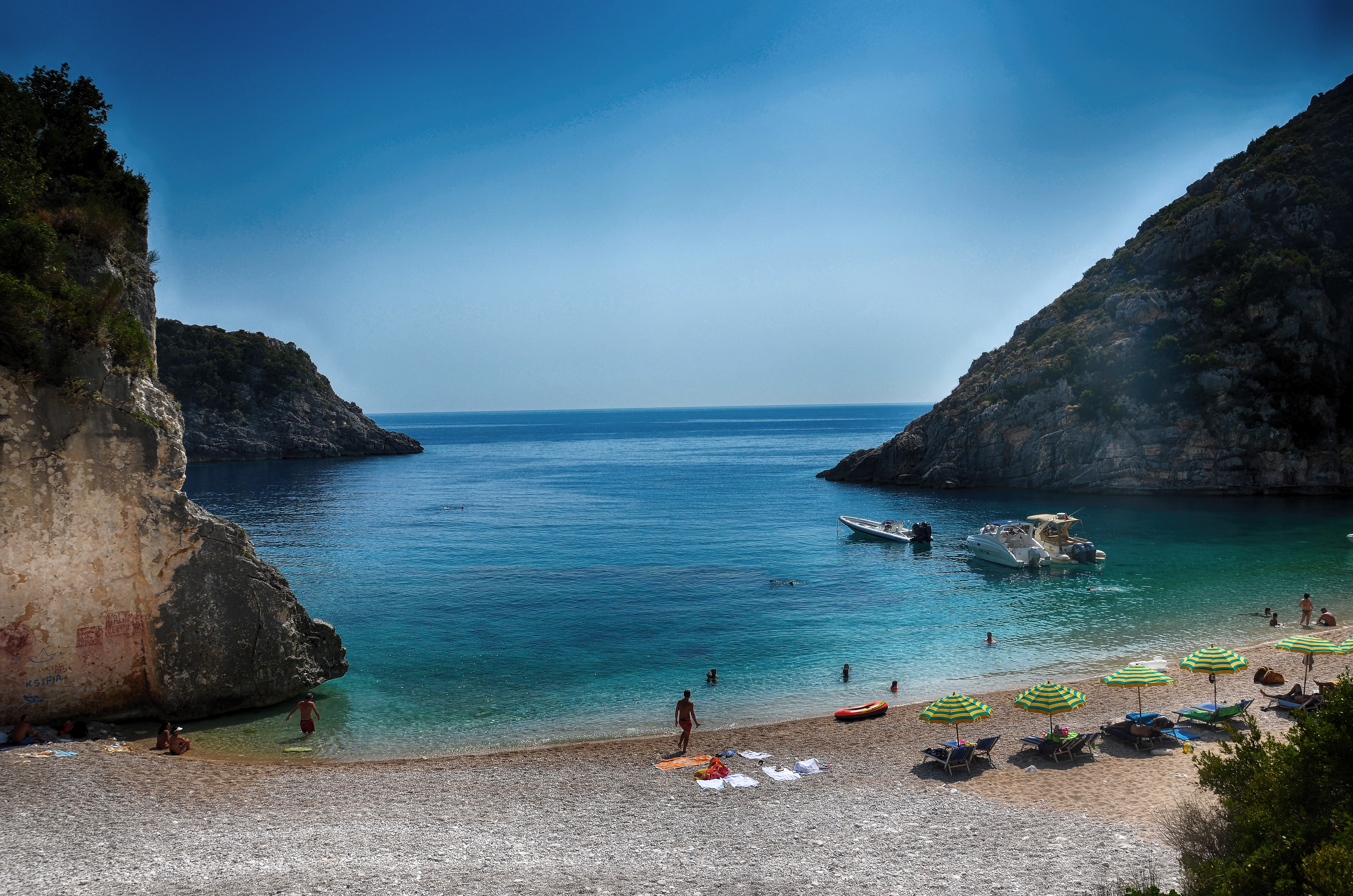 The Grama Bay in Albania